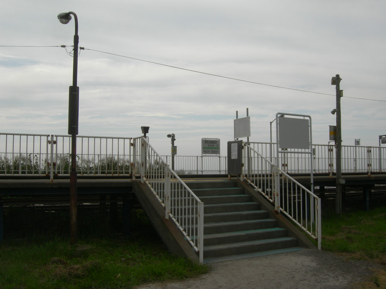 JR Hokkaido Muroran line Kita-Funaoka stn.